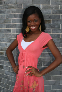 Miss Belize 2007, Felicita Arzu, in Miss World 07, Sanya, China